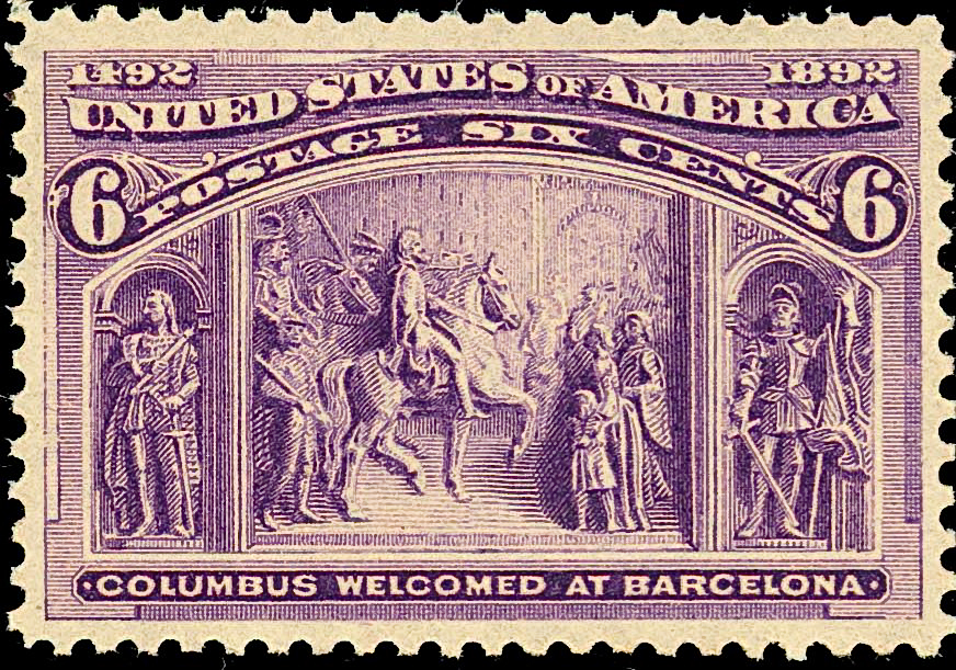 ~ Columbus at Barcelona ~ This scene is from one of the panels of the bronze doors by Randolph Rogers in the Capitol at Washington. On each side of the scene represented is a niche, in one of which is a statue of Ferdinand and in the other a statue of Balboa. The 6¢ Columbian, purple. ~ Columbus Welcomed at Barcelona ~.